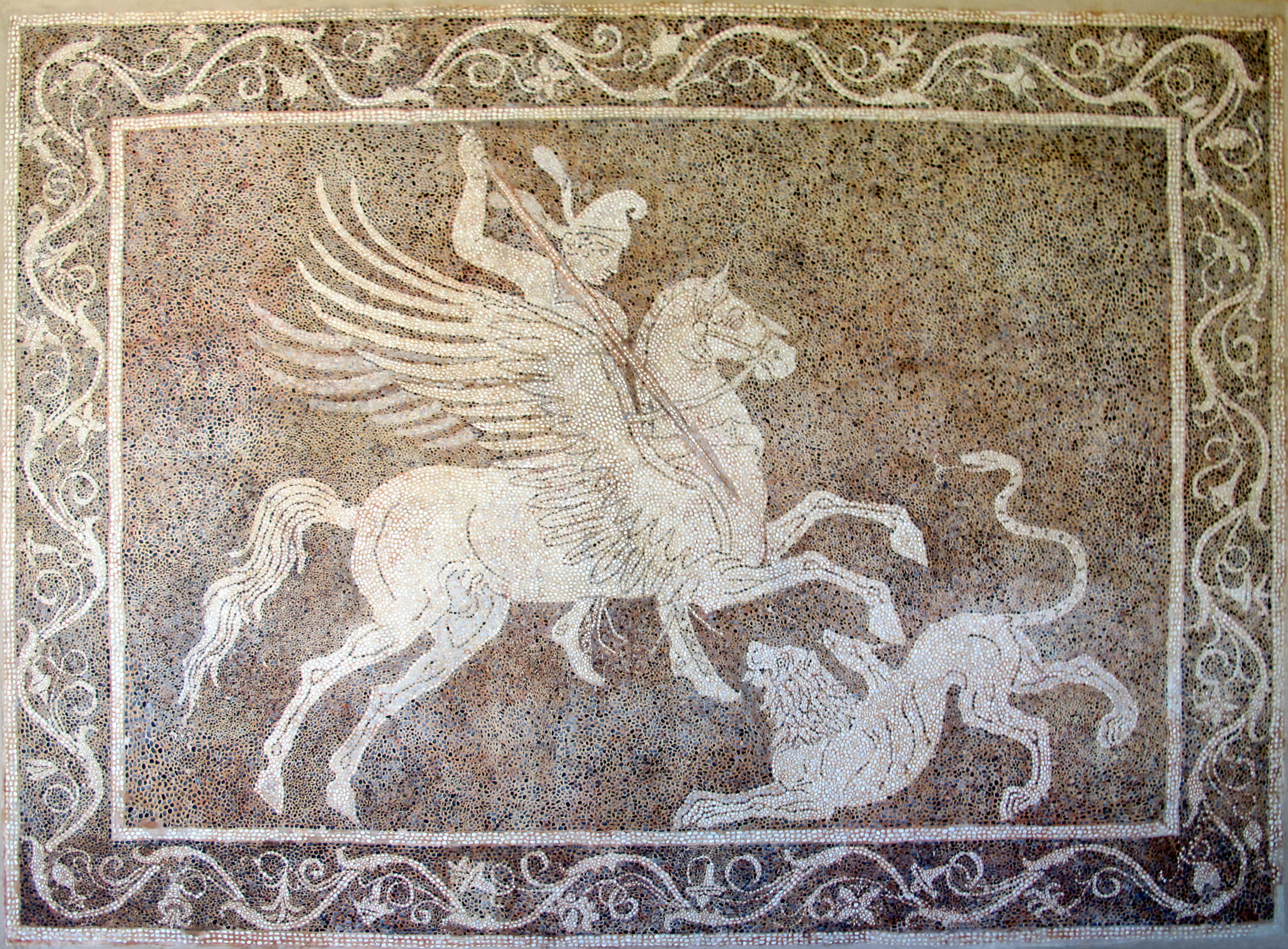 Mosaic with Bellerophon and the Chimera. South Rhodos, ca. 300–270 B.C.